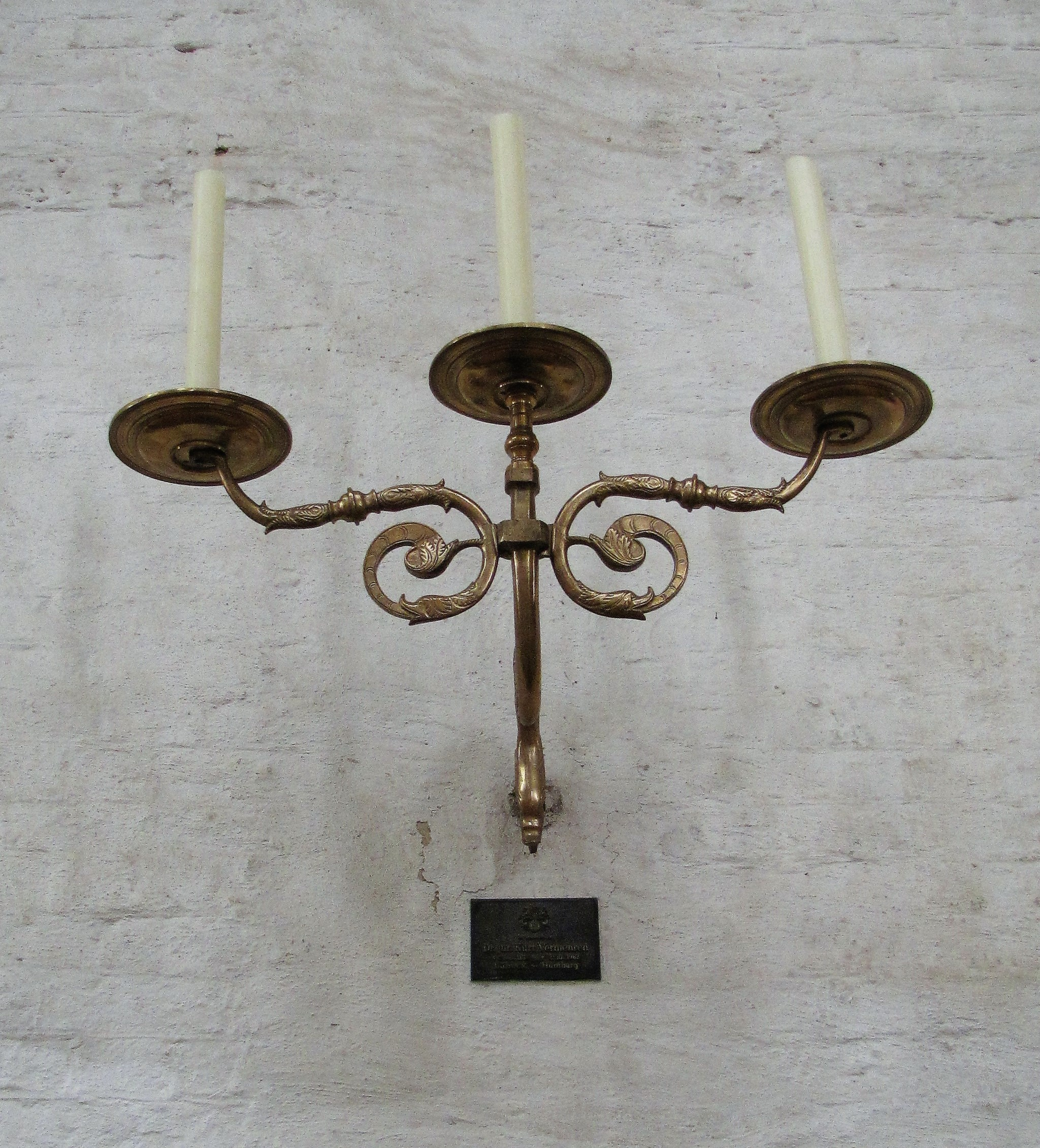 Candelabra in memory of Kurt Vermehren in the Marienkirche, Lübeck